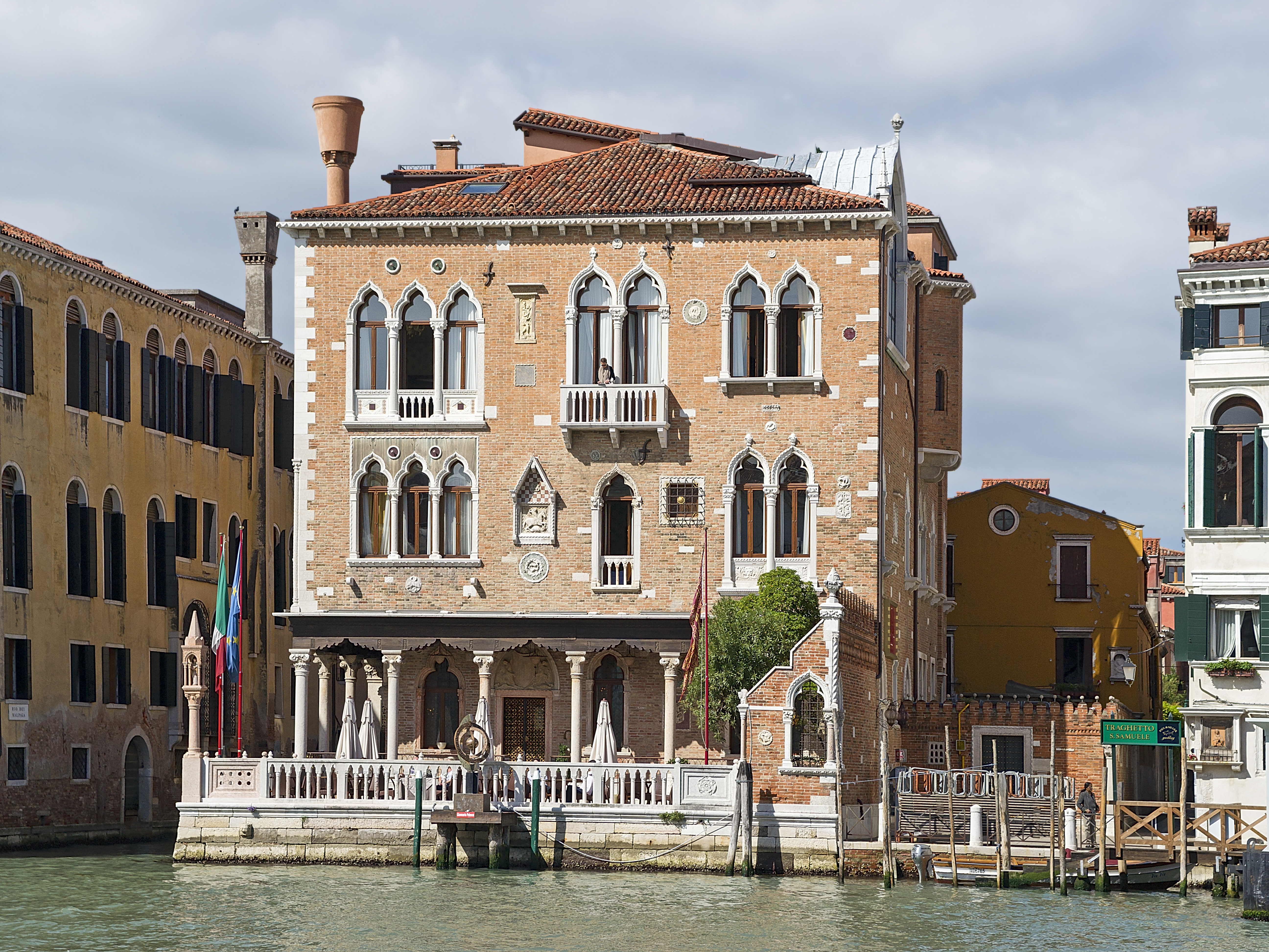 Palazzetto Stern, Venice facade.